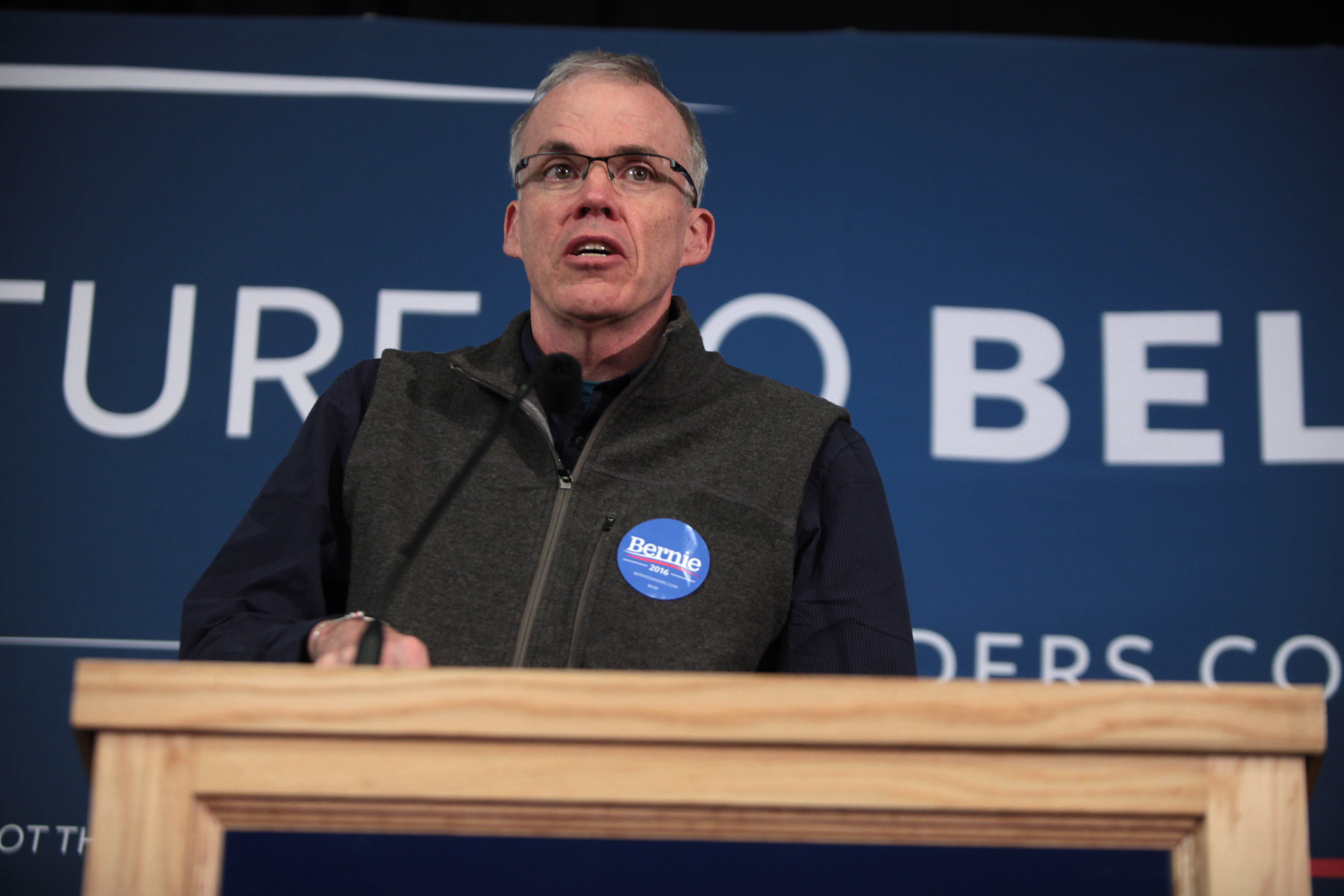 Bill McKibben speaking with supporters of U.S. Senator Bernie Sanders at a student meeting at Southern New Hampshire University in Hooksett, New Hampshire.